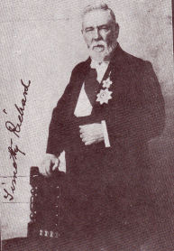 This is a photo of Timothy Richard, a Welsh Baptist missionary to China